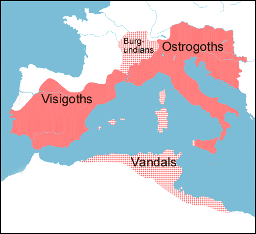 Map of the territories (pink) ruled by Theodoric the Great at their height in 523, when he annexed the southern part of the Burgundian kingdom, between the rivers Durance and Isere. Stippled areas indicate other kingdoms dominated by Theodoric at this time.